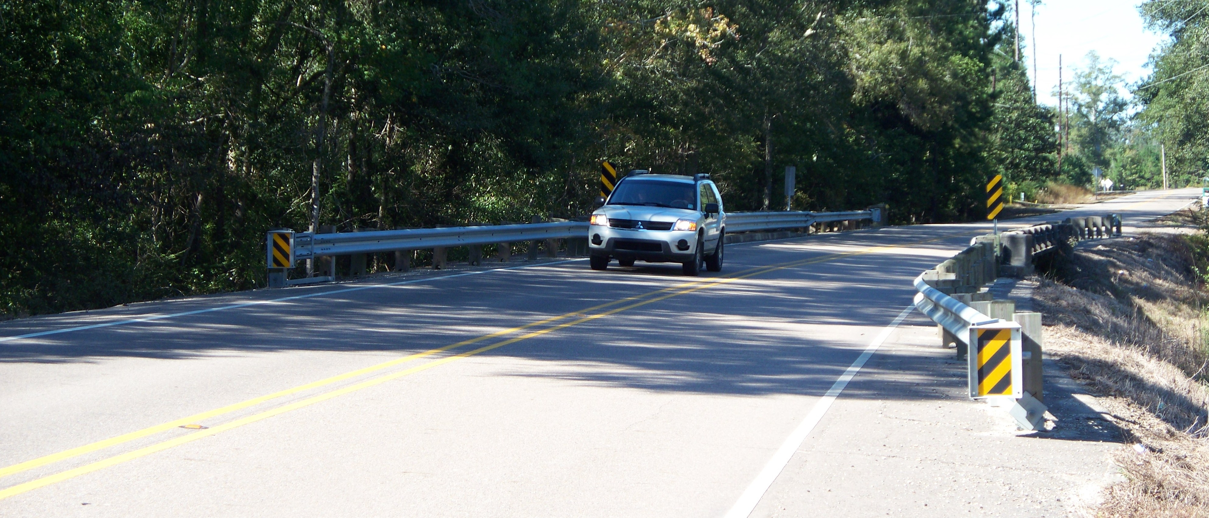 LA 445 at the Sims Creek bridge. The view is toward the north. The vehicle is a Mitsubishi.